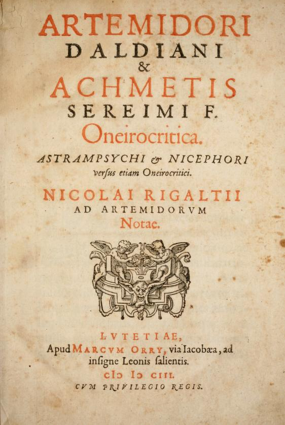 Title page of Nicolaus Rigaltius, ed., Artemidori Daldiani ...